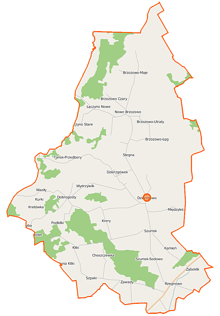 Map of Gmina Dzierzgowo, Poland This map of Dzierzgowo (gmina) was created from OpenStreetMap project data, collected by the community. This map may be incomplete, and may contain errors. Don't rely solely on it for navigation. Border coordinates53.270320.5204←↕→20.735053.0860